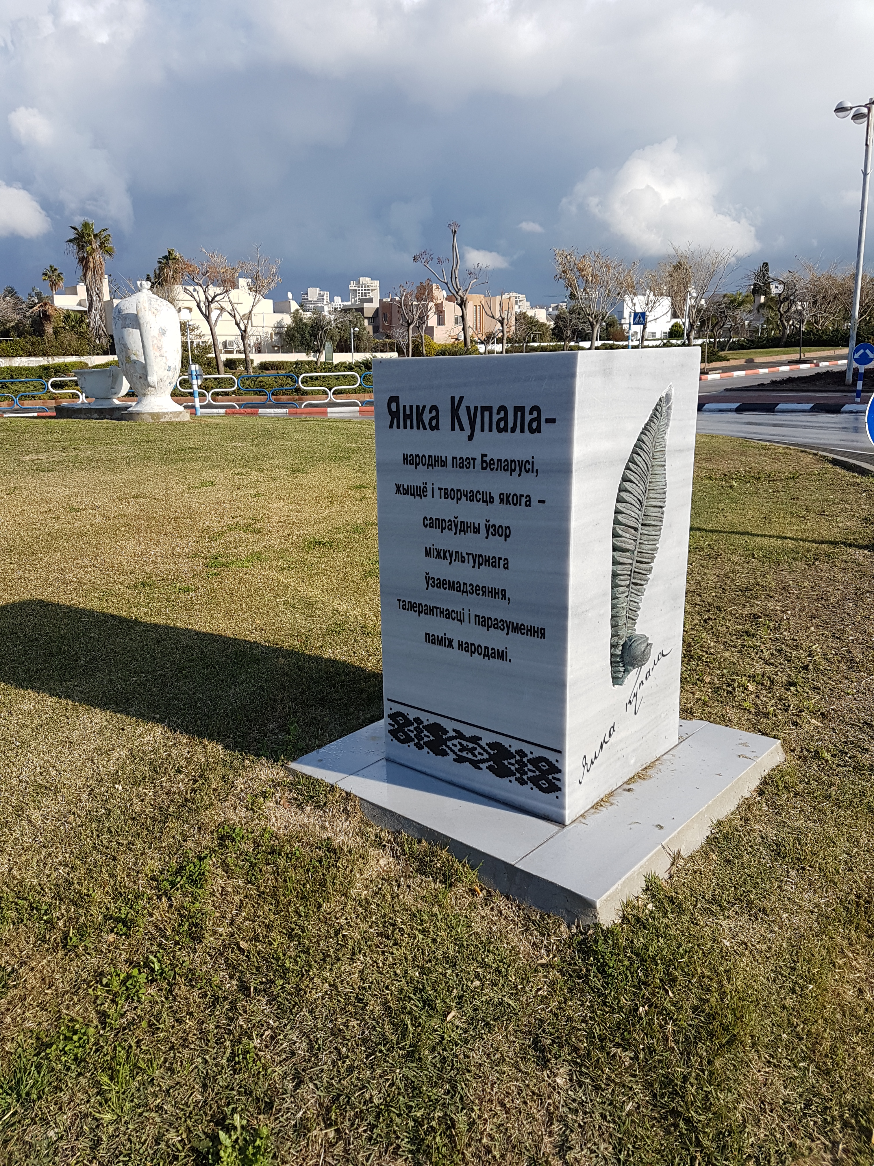 Yanka Kupala monument in Ashdod, the junction of Mota Gur and Rothschild streets. This photo shows the side with text in the Belarusian language. For the side with text in the Hebrew language see File:Yanka Kupala monument in Ashdod - 1.jpg.